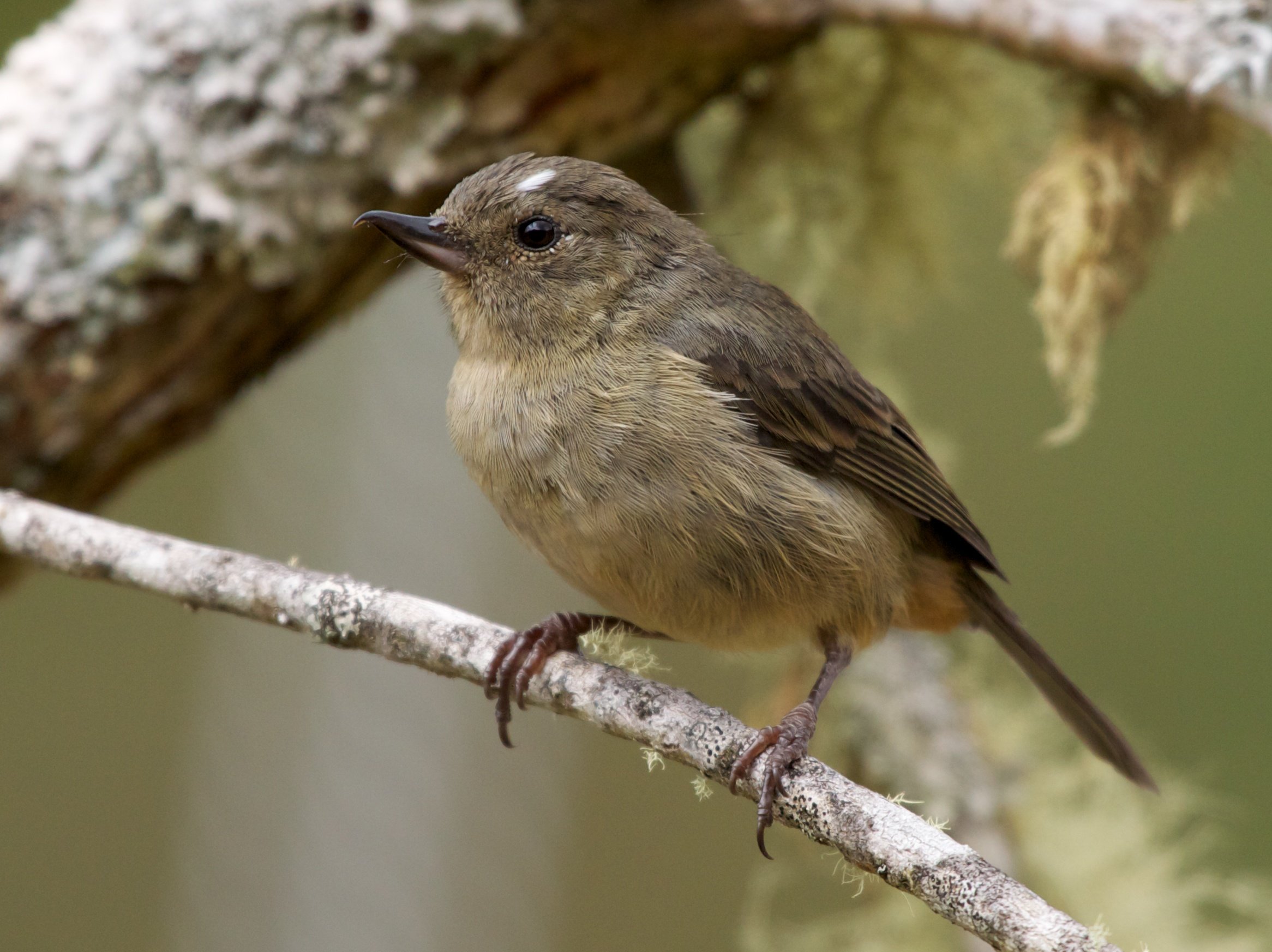 A female Slaty Flowerpiercer in Limón, Costa Rica.